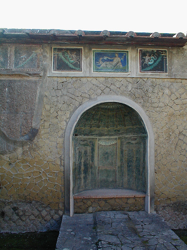 In 1831 the remains of the first body to be discovered at Herculaneum was found in this house.